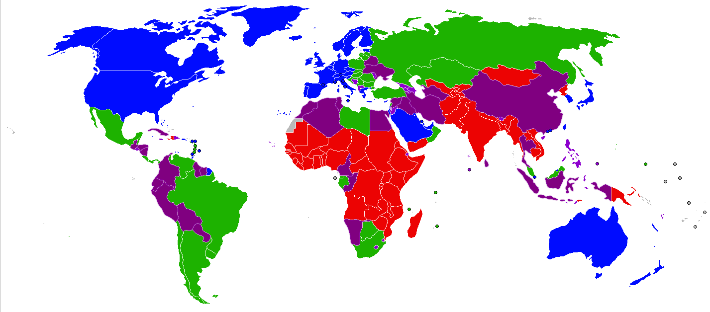 Countries based on World Bank income groupings for 2006 (calculated by GNI per capita, Atlas method). High income Upper-middle income Lower-middle income Low income